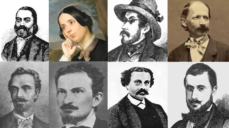 Photomontage of public domain images. Portraits of the Românul(ŭ) newspaper contributors, in ca. 1857-67. Top row, from left: C. A. Rosetti, Maria Rosetti, Cezar Bolliac, D. Bolintineanu. Bottom row, from left: N. Nicoleanu, C. D. Aricescu, Alexandru Odobescu, Dimitrie Brătianu.